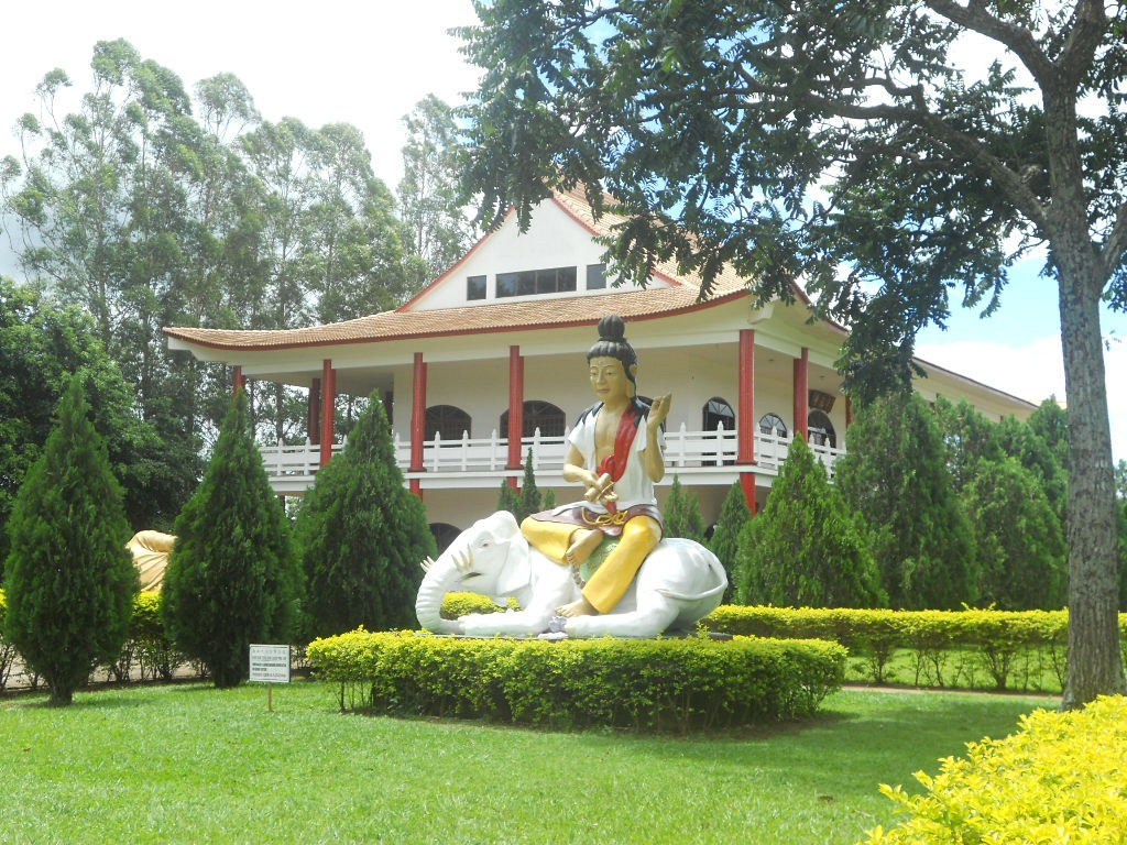 Buddhist temple of Foz do Iguaçu